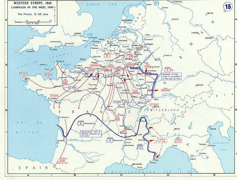 German offensive of june 1940, which led to defeat of France in WWII